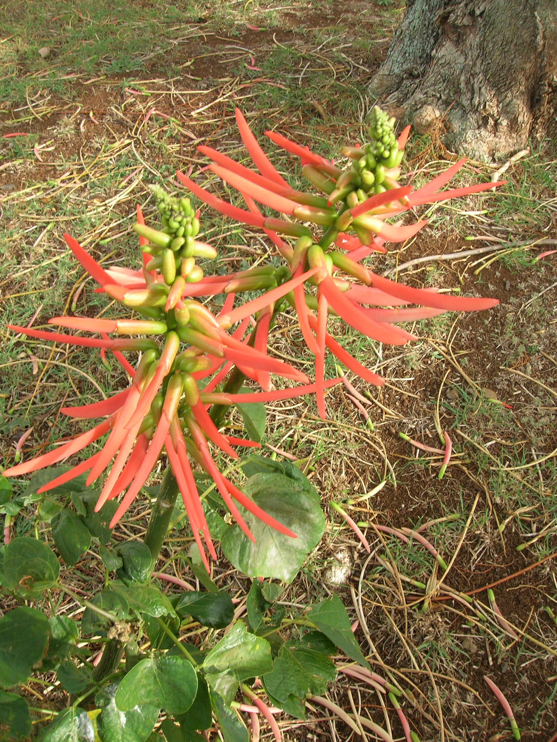 Erythrina berteroana (flowers). Location: Maui, Makawao